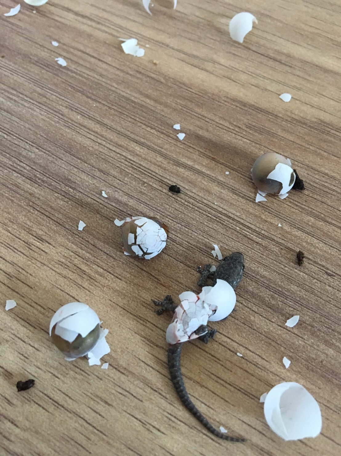 Gecko eggs (ヤモリの卵). Thanks to R’s lens.